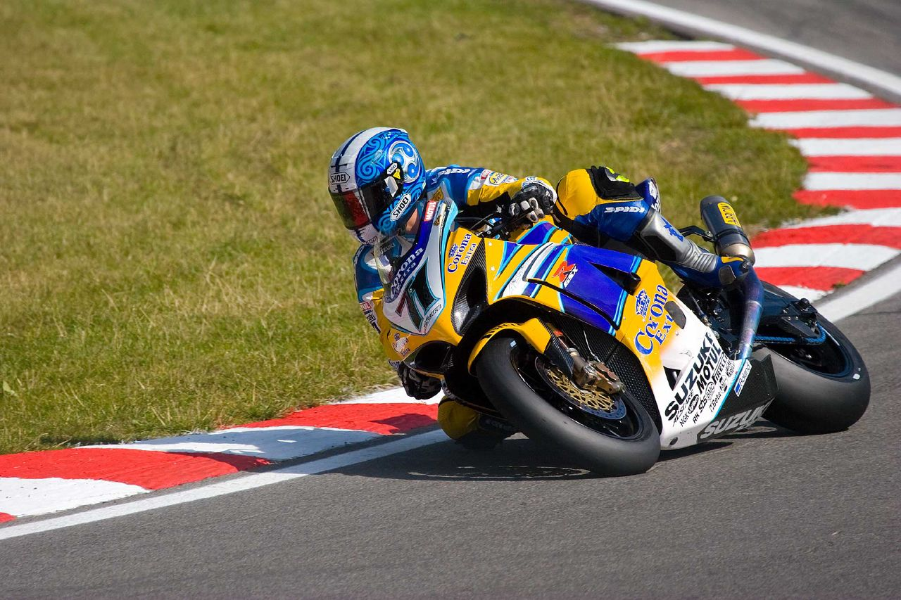 WSBK Round 10 Brands Hatch 2007